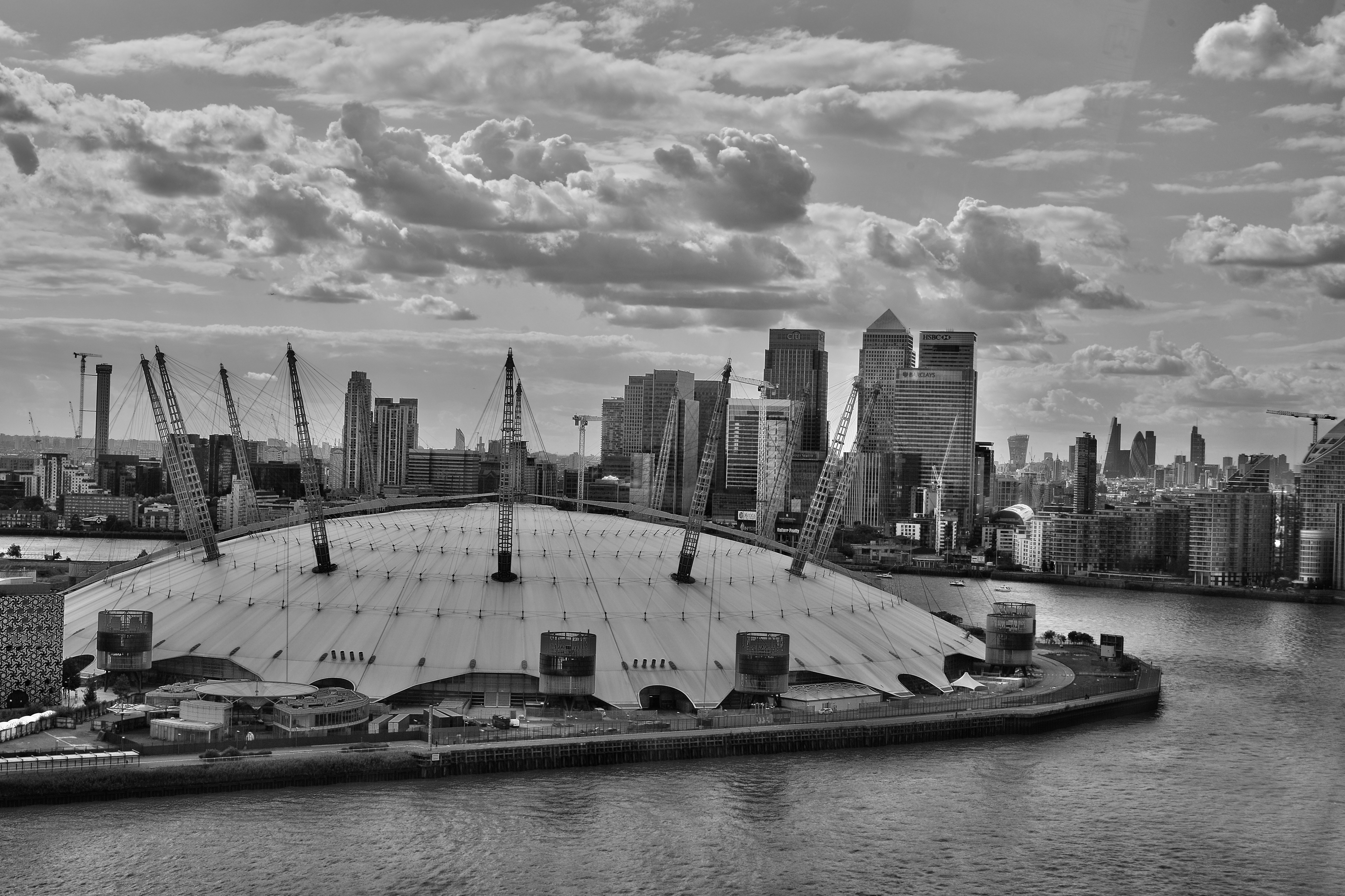 O2 with Canary Wharf and City of London